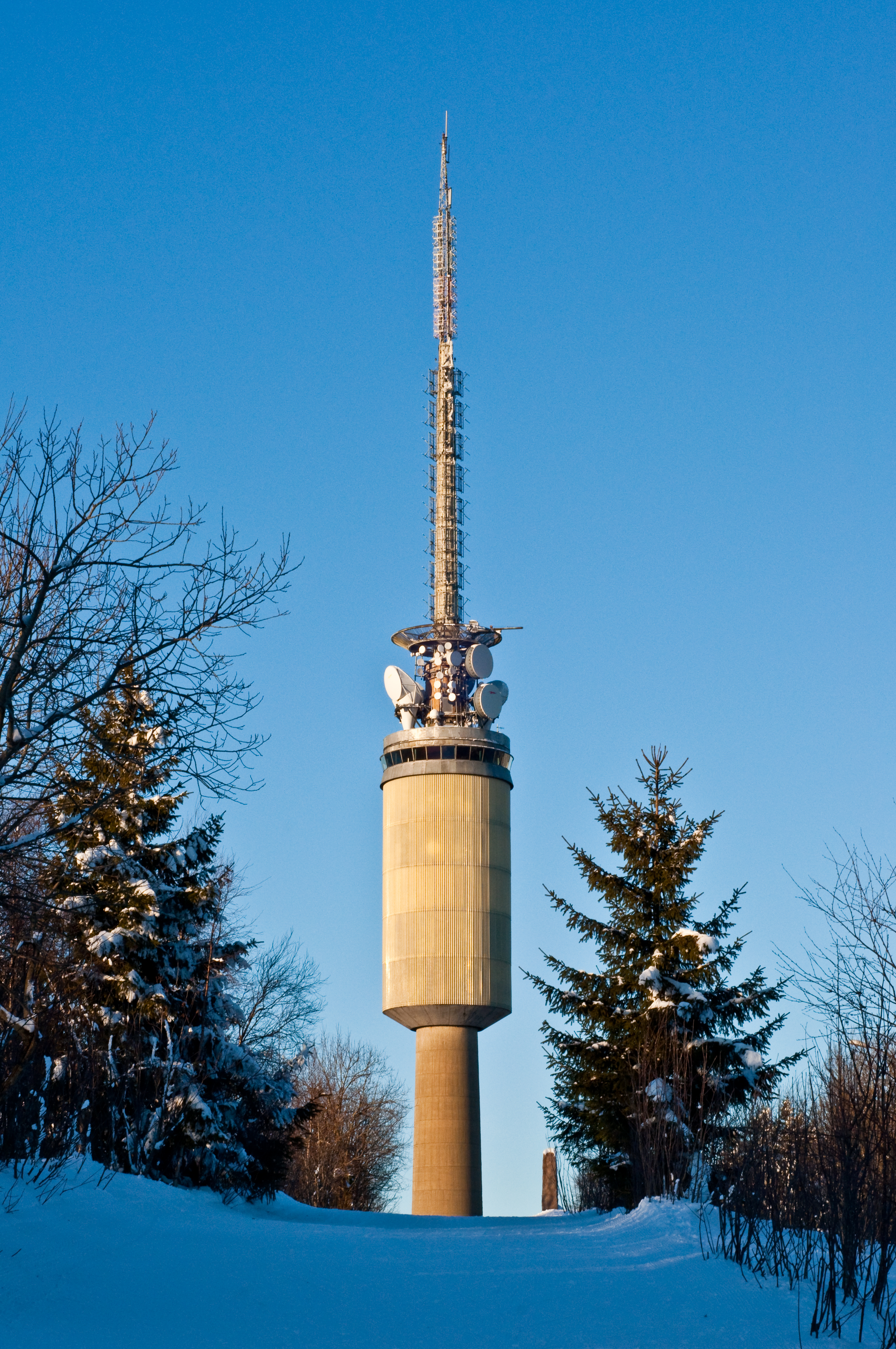 Tryvann Tower, February, 2010 Norsk (bokmål): Tryvannstårnet, 2. februar, 2010